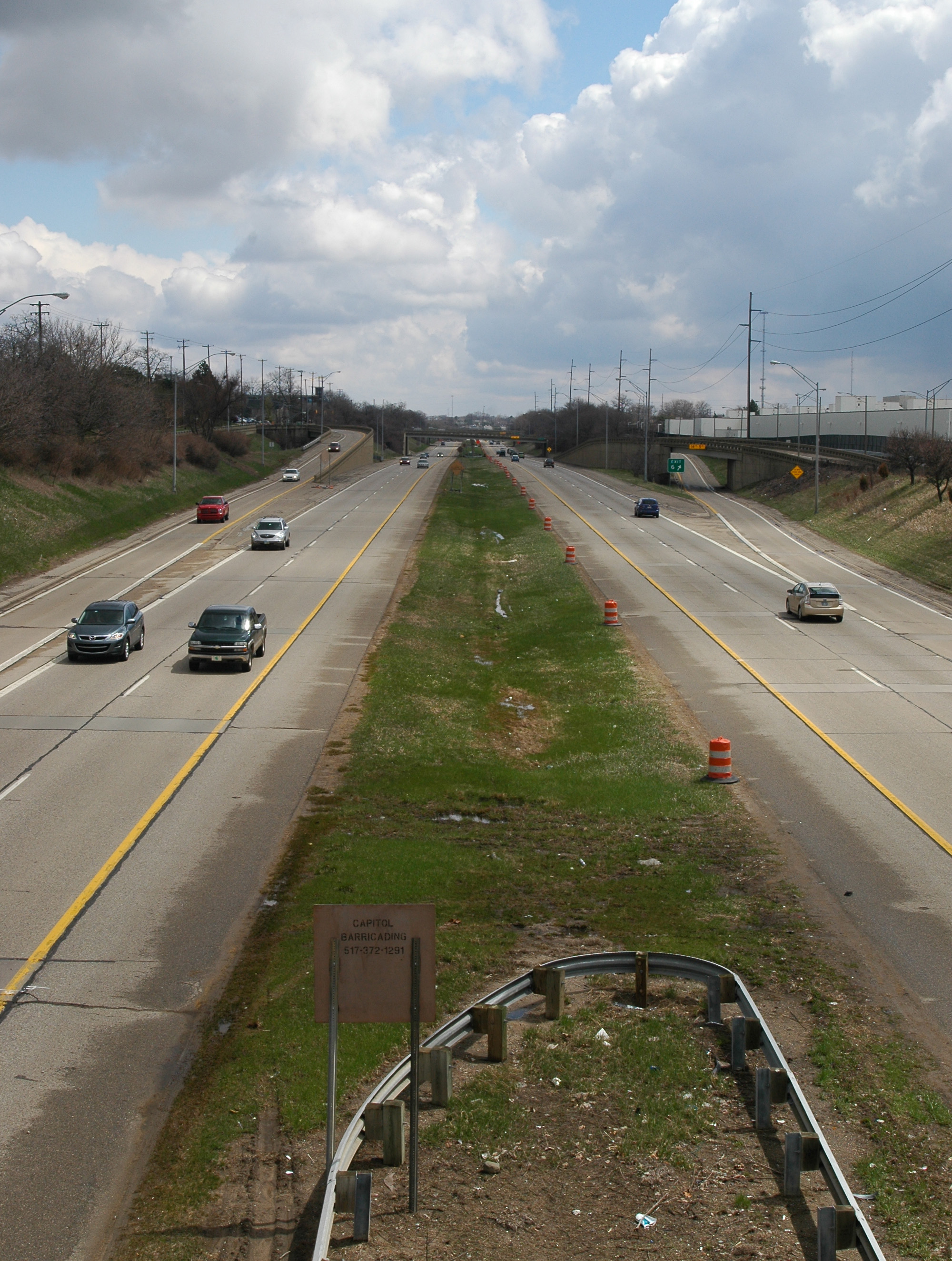 Interstate 496 looking east at Martin Luther King, Jr. Boulevard (Capitol Loop and M-99) in Lansing, Michigan